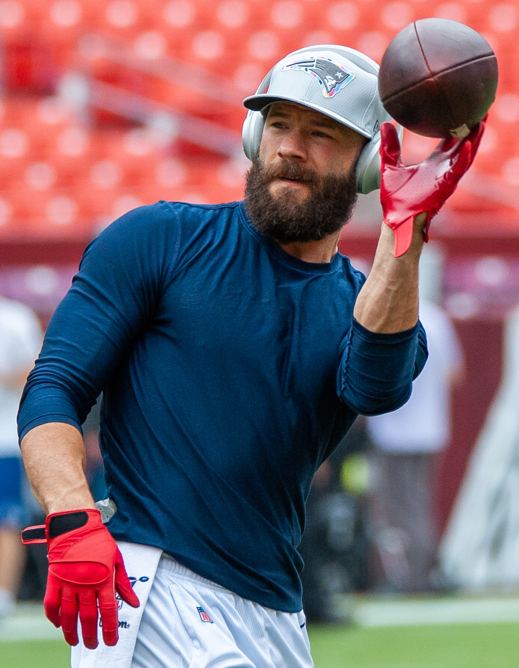 in 2019